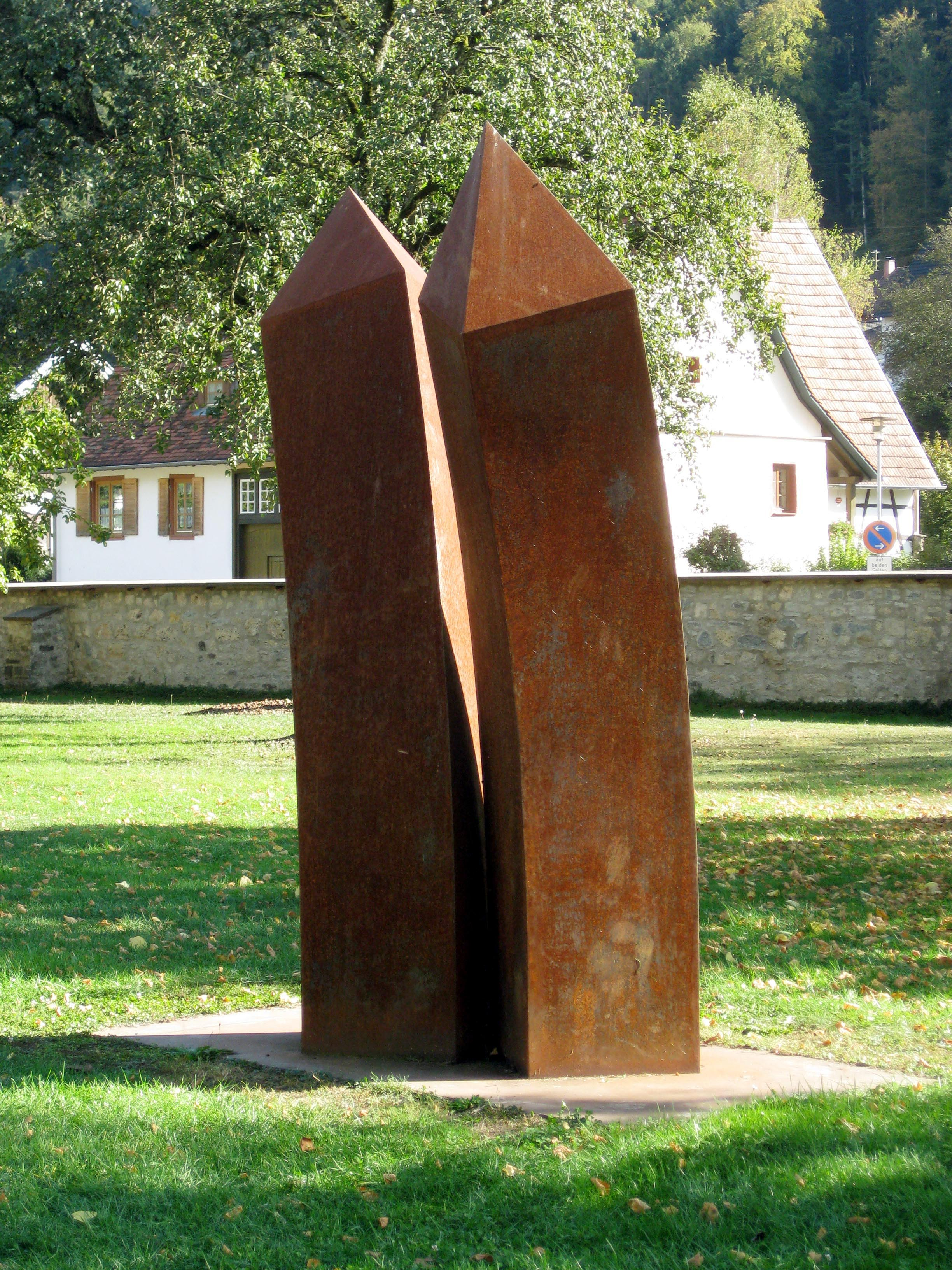 Jürgen Knubben, Doppelturm schräg, Cor-Ten steel, 2005, - Water castle Sulz-Glatt, Baden-Württemberg, Germany